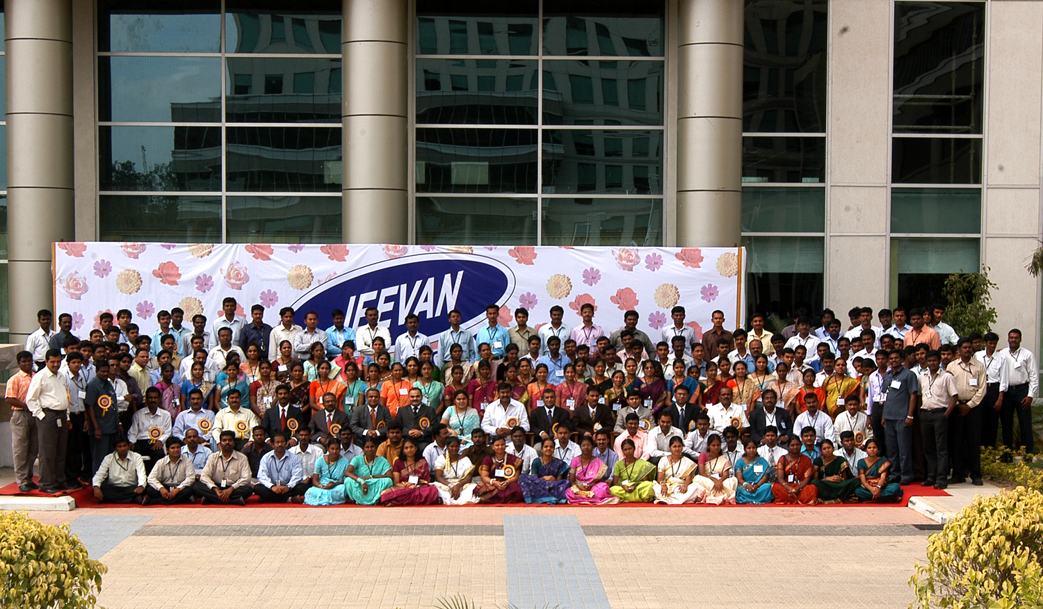 Jeevan Technologies 2008 IIIrd ODC at DLF IT Park